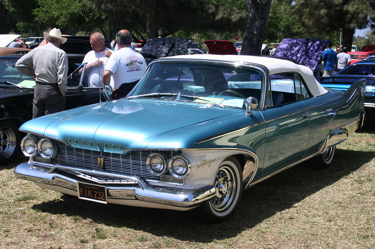 1960 Plymouth Fury convertible.